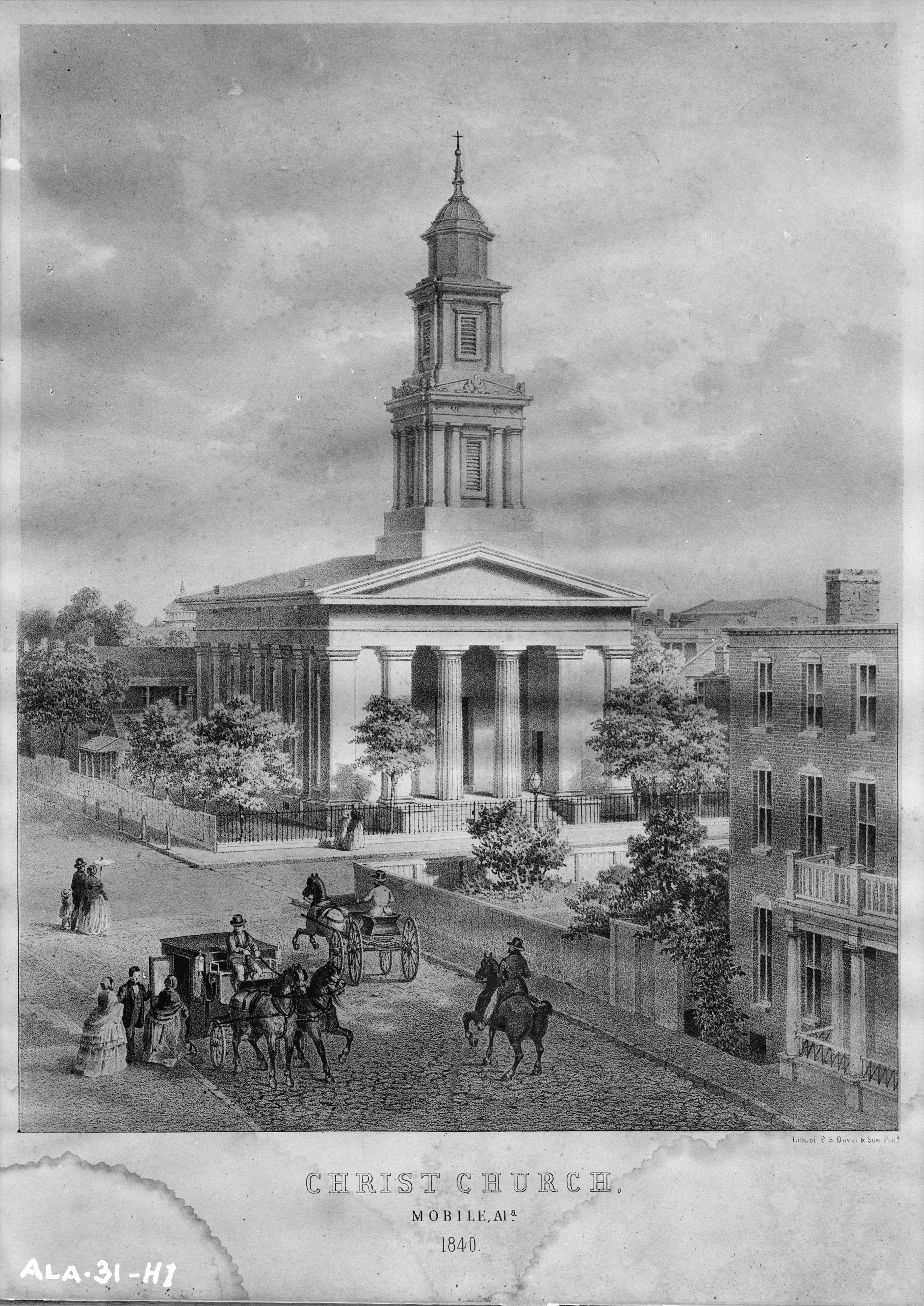 Christ Episcopal Church. East elevation, front, (general view) (Reproduction).